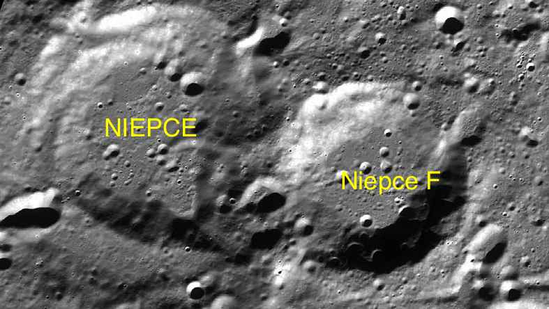 Part of the chart LAC-9 used for the presentation